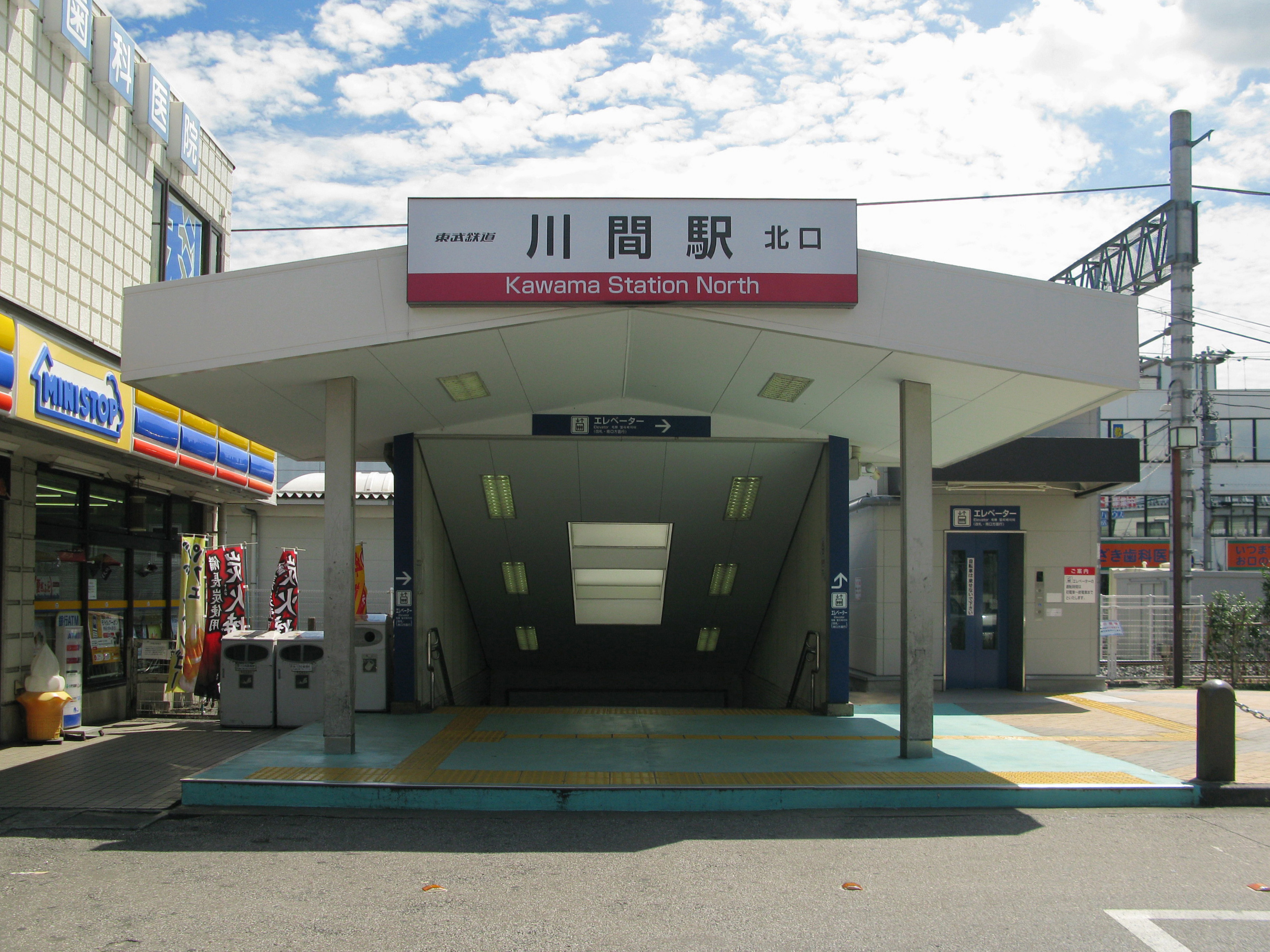 The north entrance to Kawama Station on the Tobu Noda Line in Chiba Prefecture, Japan